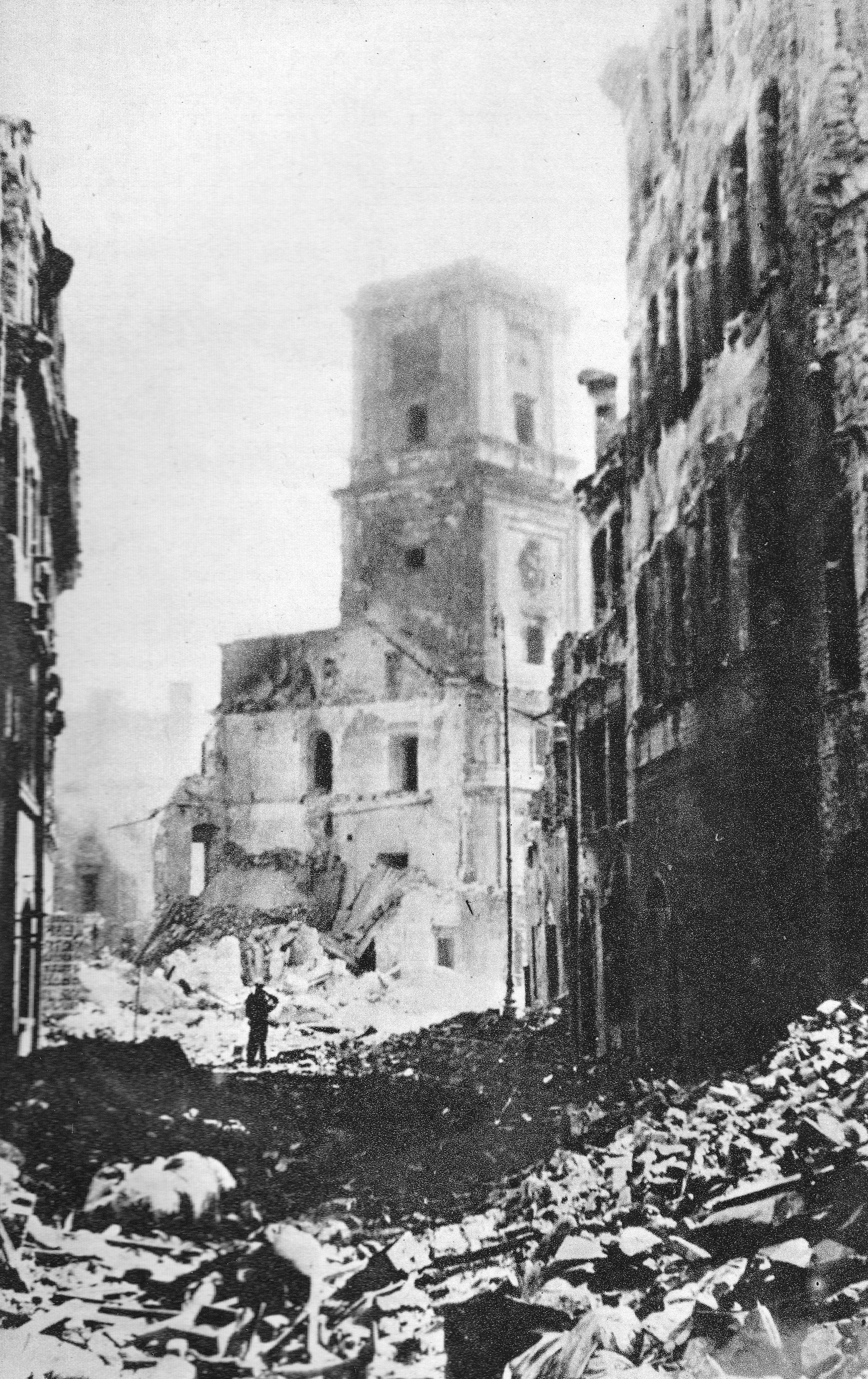 Warsaw Uprising: View from Świętojańska Street towards Category:Royal Castle Square. In the back the clock tower of the Royal Castle before the final destruction of the castle.